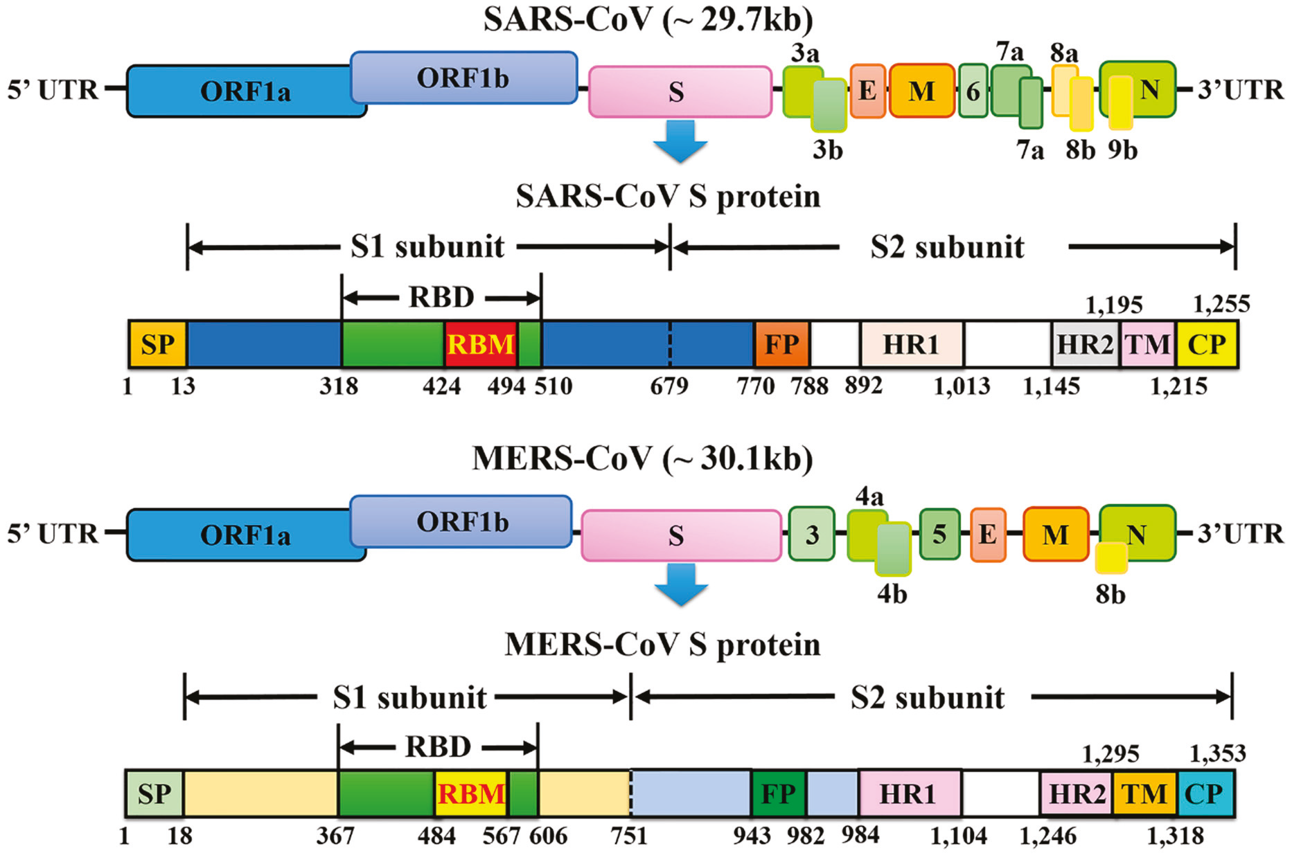 Schematic representation of the genome organization and functional domains of S protein for SARS-CoV and MERS-CoV. The single-stranded RNA genomes of SARS-CoV and MERS-CoV encode two large genes, the ORF1a and ORF1b genes, which encode 16 non-structural proteins (nsp1–nsp16) that are highly conserved throughout coronaviruses. The structural genes encode the structural proteins, spike (S), envelope (E), membrane (M), and nucleocapsid (N), which are common features to all coronaviruses. The accessory genes (shades of green) are unique to different coronaviruses in terms of number, genomic organization, sequence, and function. The structure of each S protein is shown beneath the genome organization. The S protein mainly contains the S1 and S2 subunits. The residue numbers in each region represent their positions in the S protein of SARS and MERS, respectively. The S1/S2 cleavage sites are highlighted by dotted lines. SARS-CoV, severe acute respiratory syndrome coronavirus; MERS-CoV, Middle East respiratory syndrome coronavirus; CP, cytoplasm domain; FP, fusion peptide; HR, heptad repeat; RBD, receptor-binding domain; RBM, receptor-binding motif; SP, signal peptide; TM, transmembrane domain.